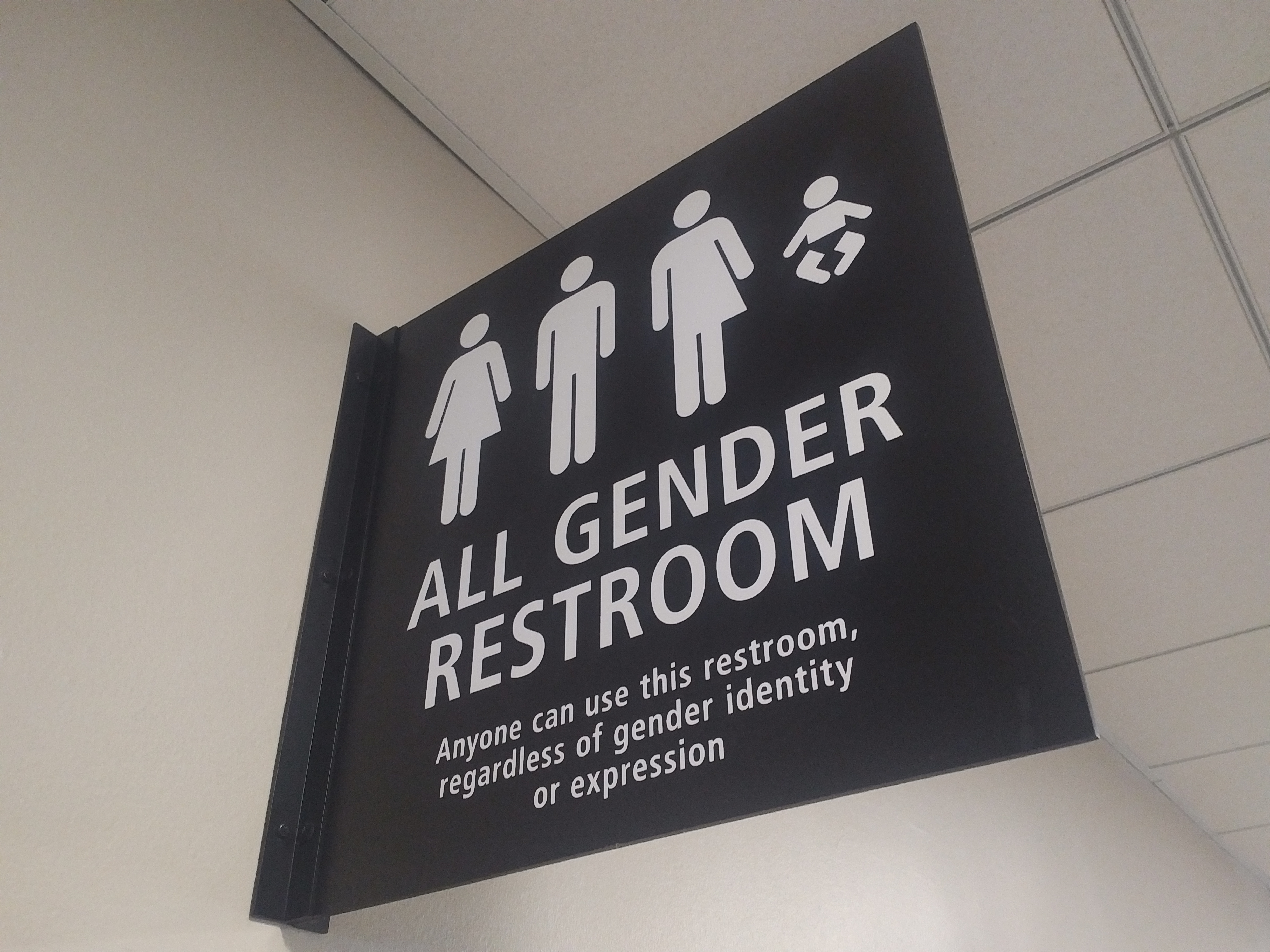 The sign outside an all-gender (gender neutral) restroom at San Diego airport in California, United States. It reads "anyone can use this restroom, regardless of gender identity or expression"